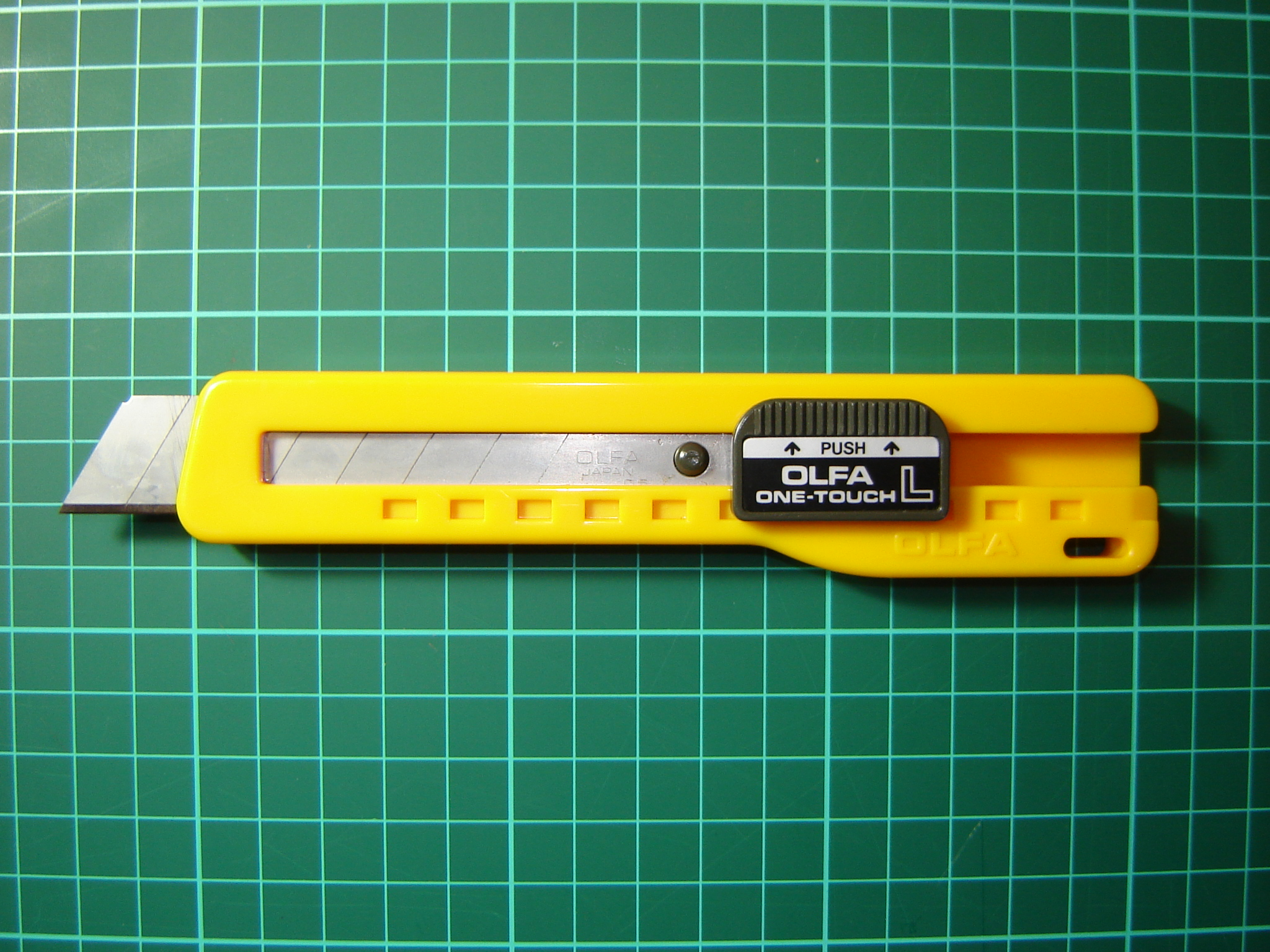 Heavy duty OLFA SL-1 cutter against a cutting mat.